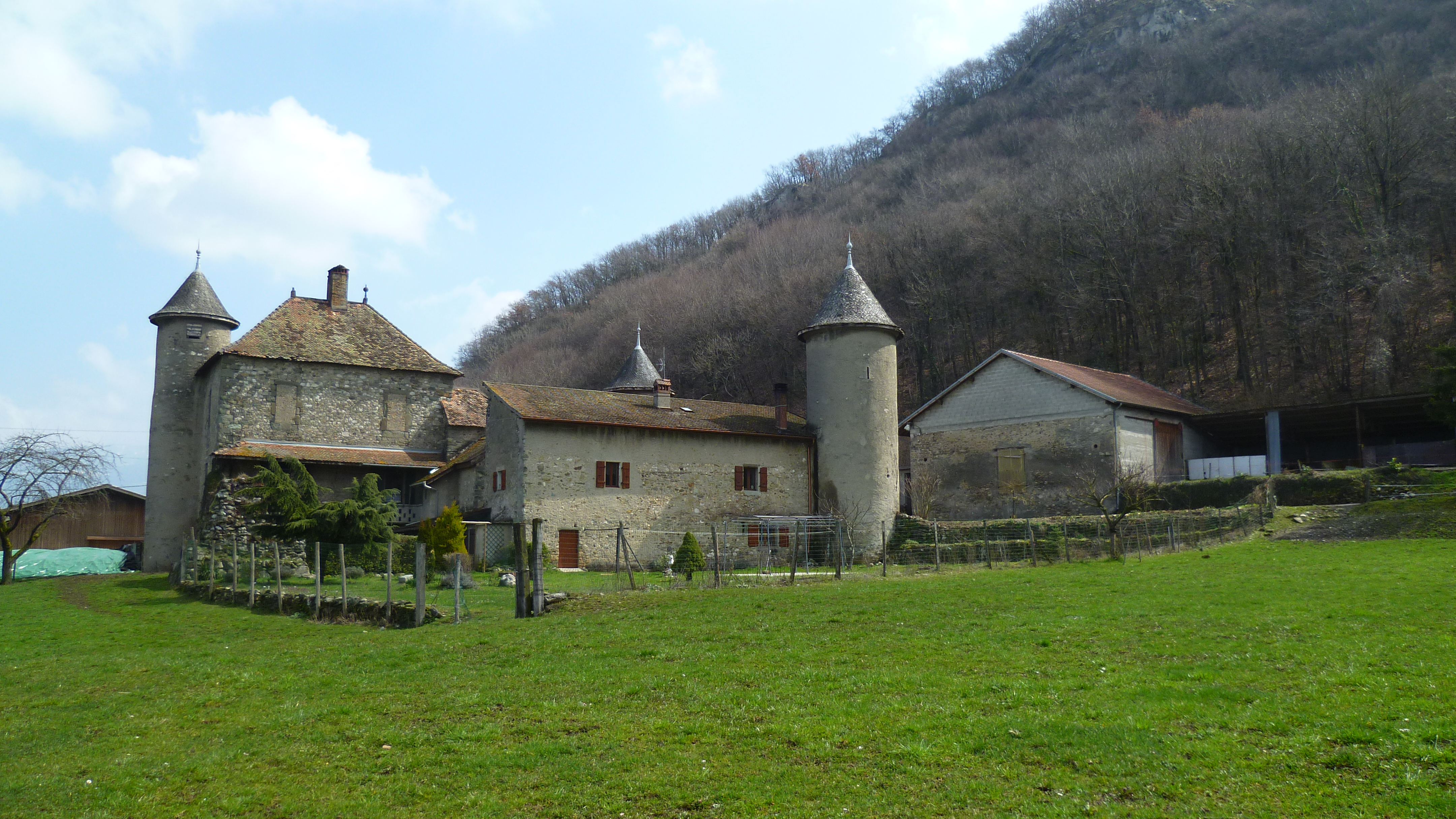 Château d'Etrembière